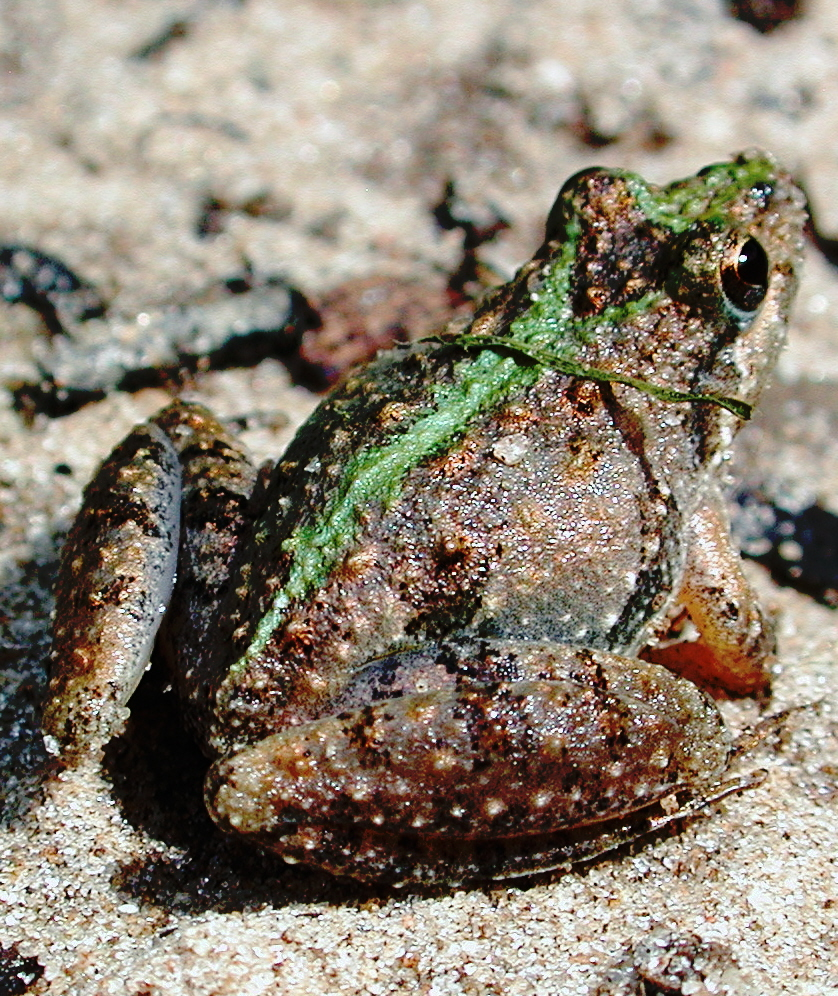 Tallahassee Florida Cricket frog